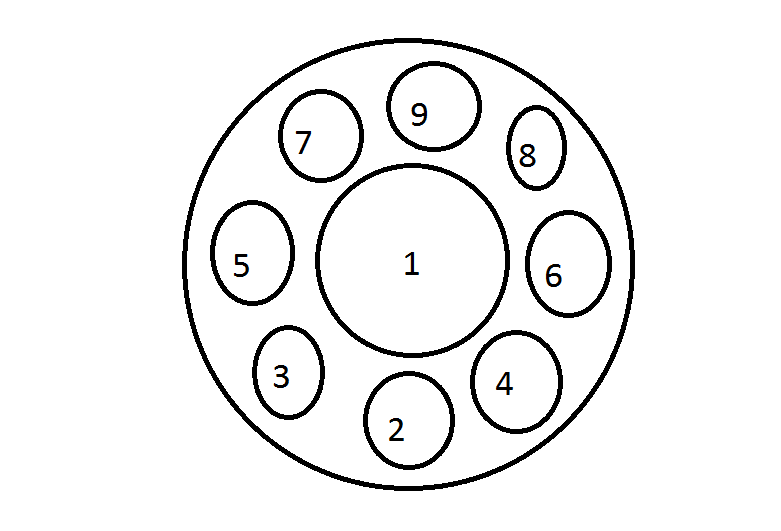 Simple diagram of the typical tuning of a handpan. Value corresponds to pitch.